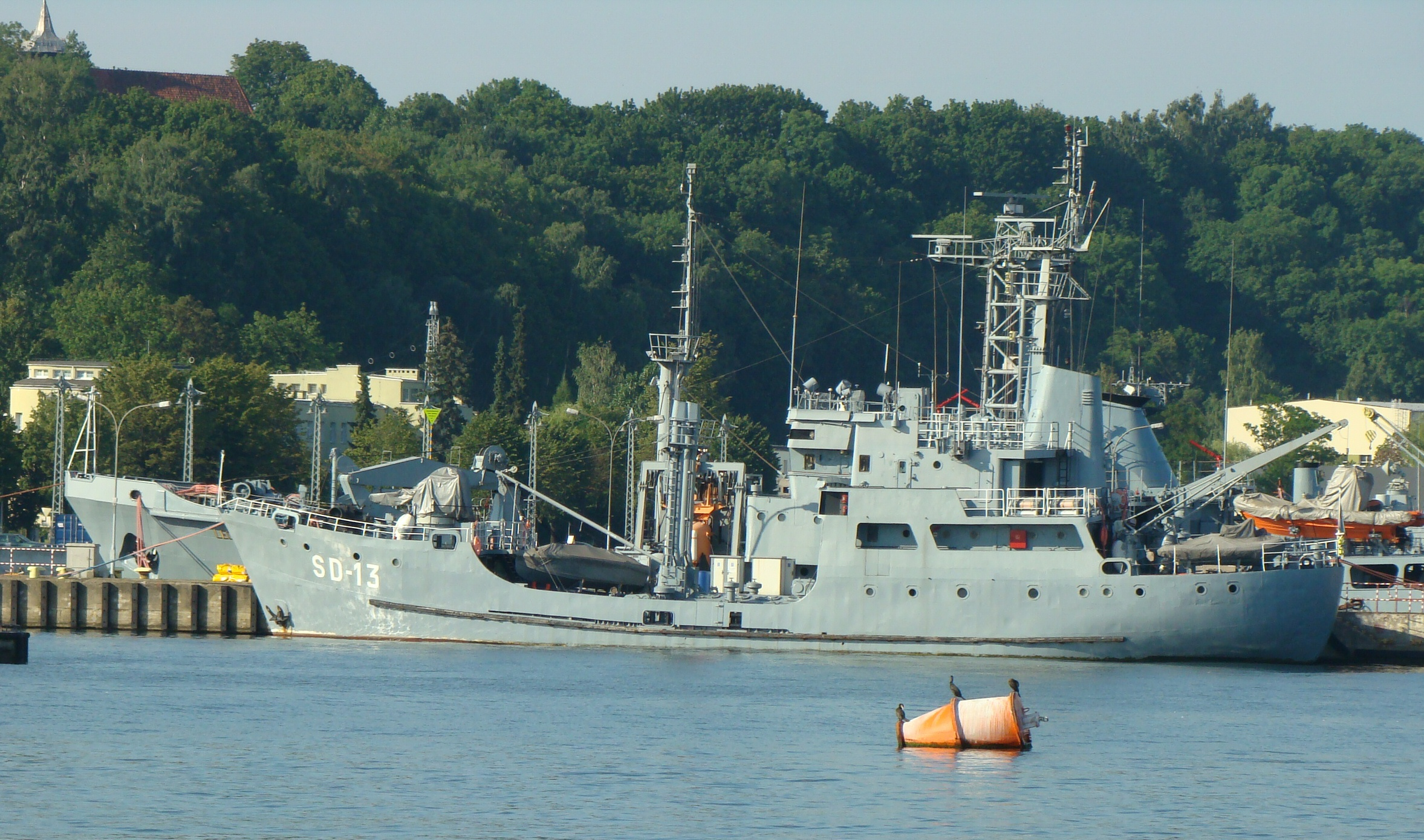 SD-13 degaussing ship in Gdynia.